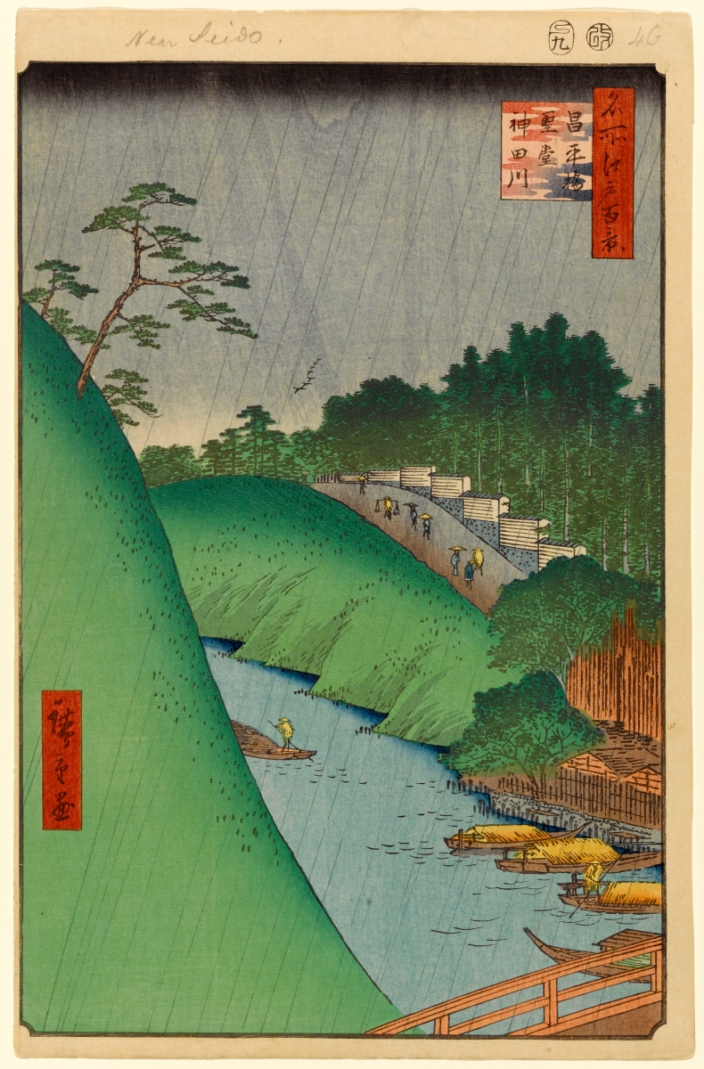 Part of the series One Hundred Famous Views of Edo, no. 047, part 2: Summer.